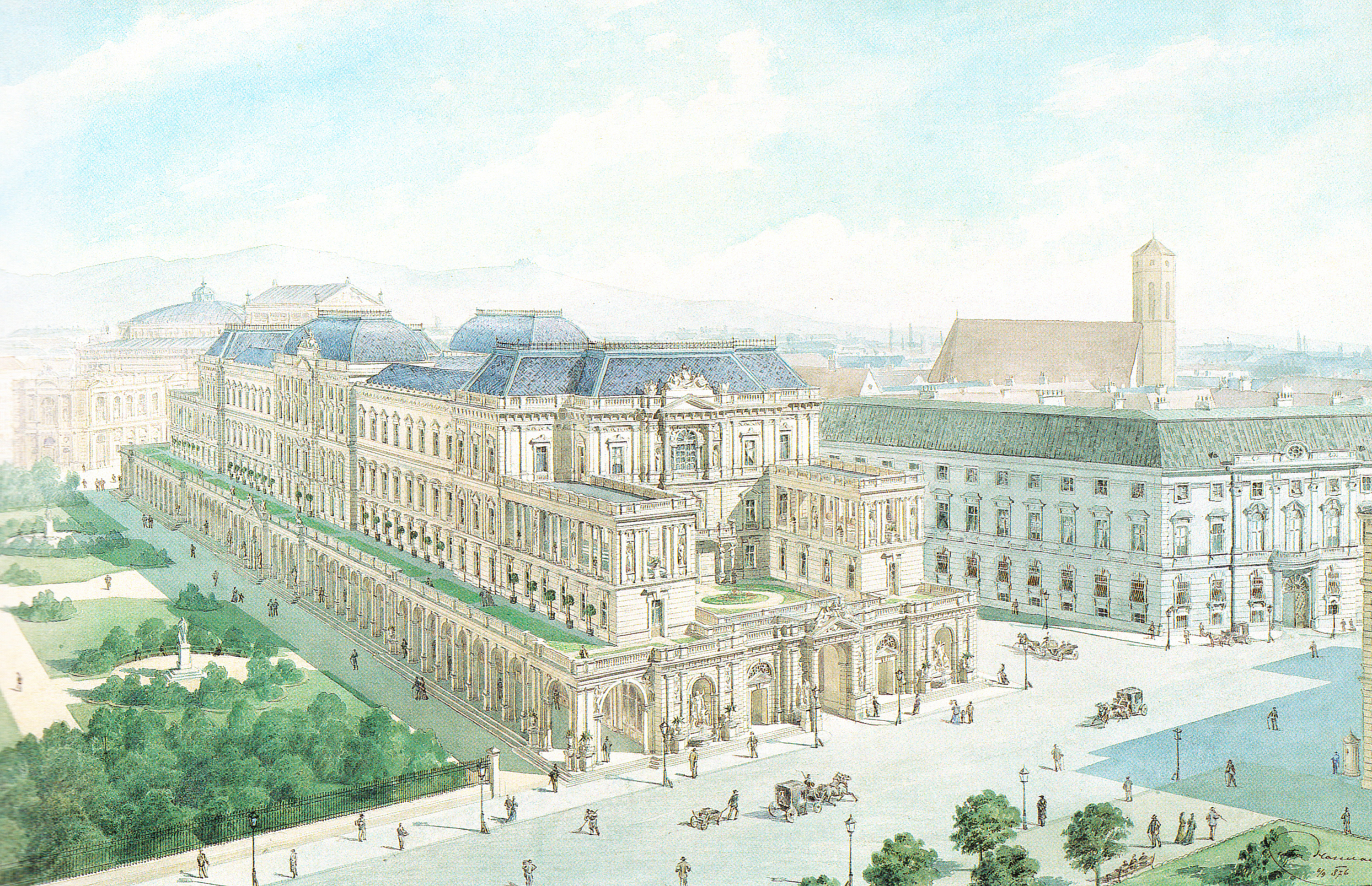 Project for the commercial building "Volksgartengruppe" at the Viennese Ringstraße; never built